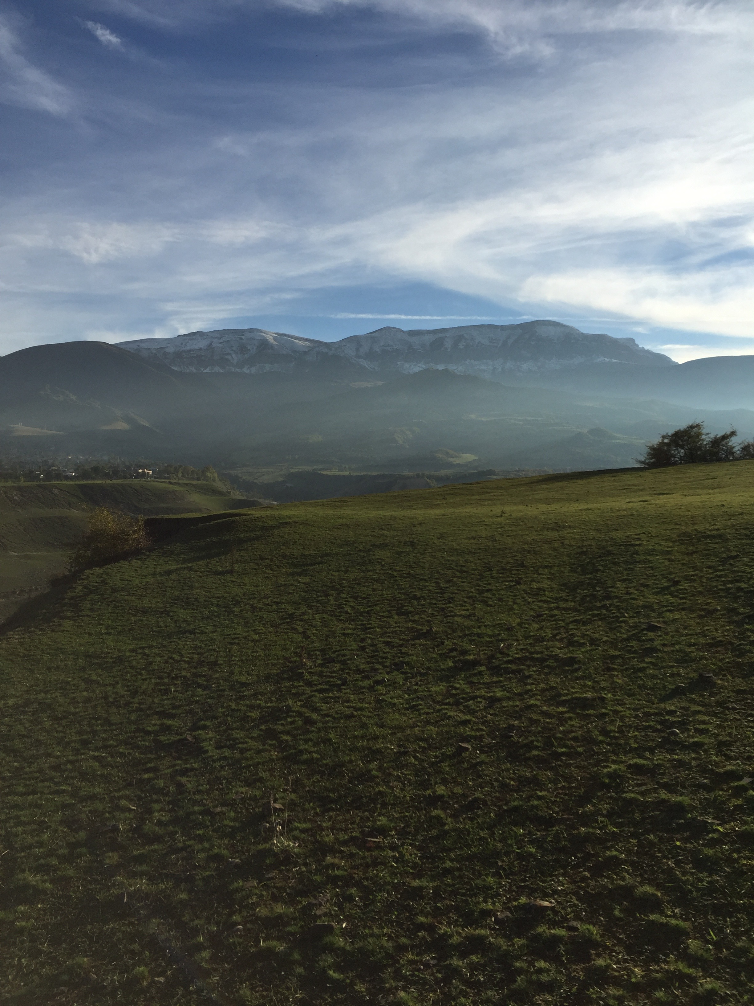 Gusar State Nature Sanctuary 5